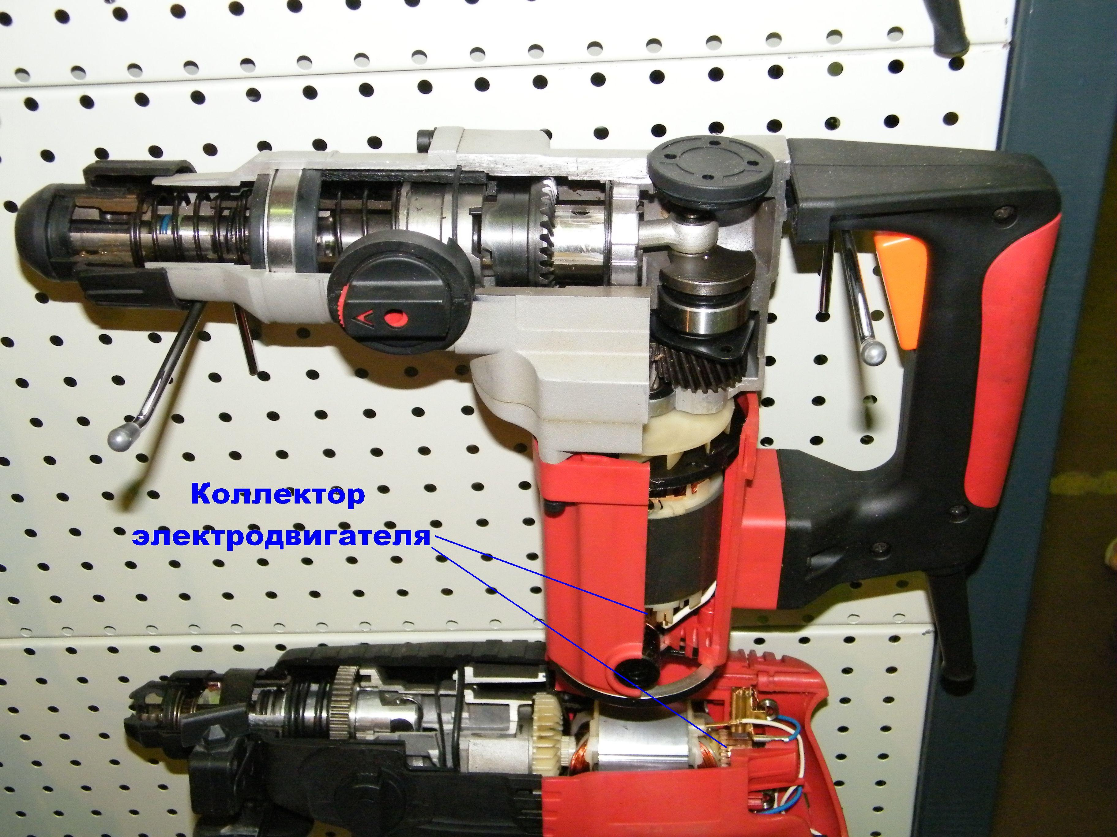 Rotary hammer